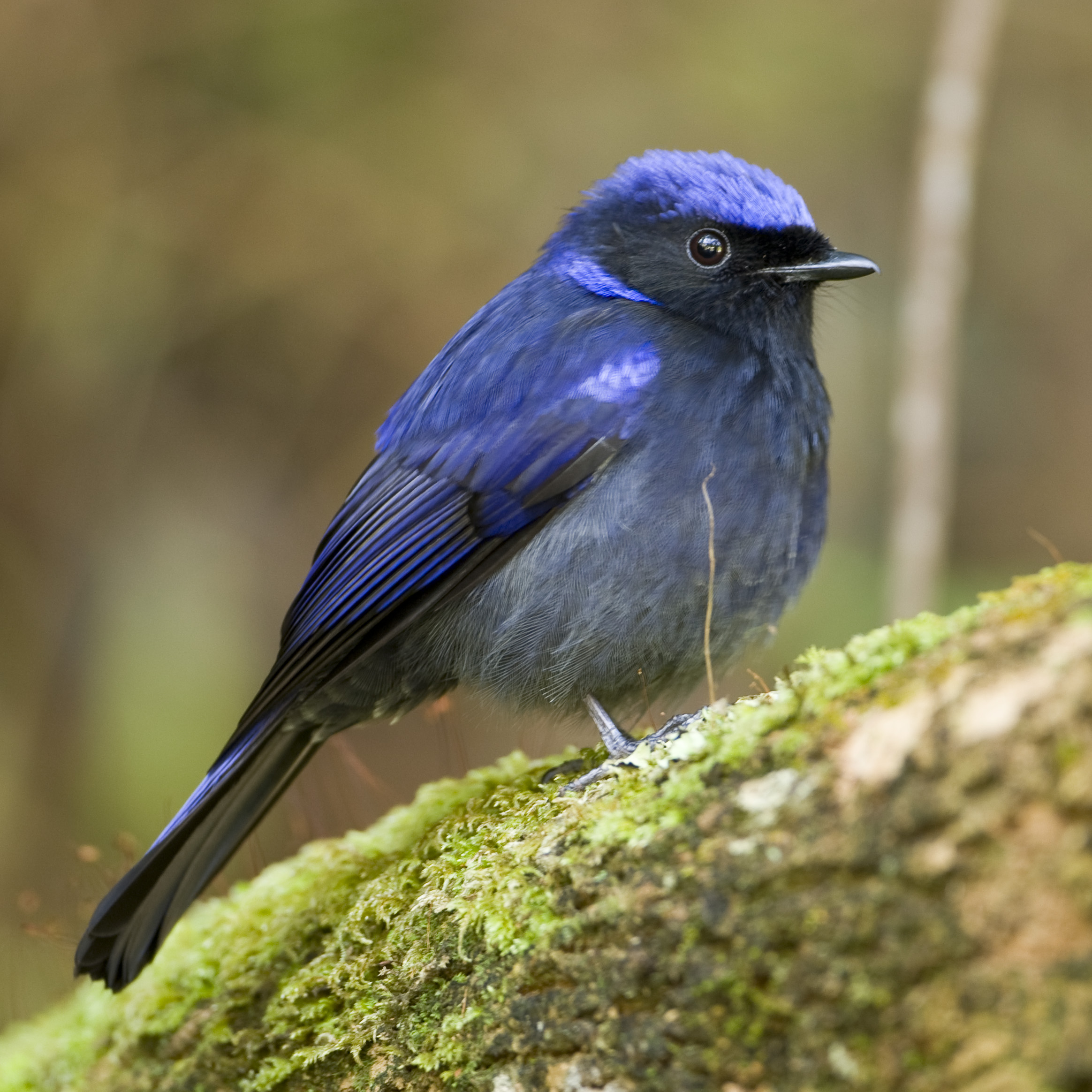 Doi Inthanon, Thailand.